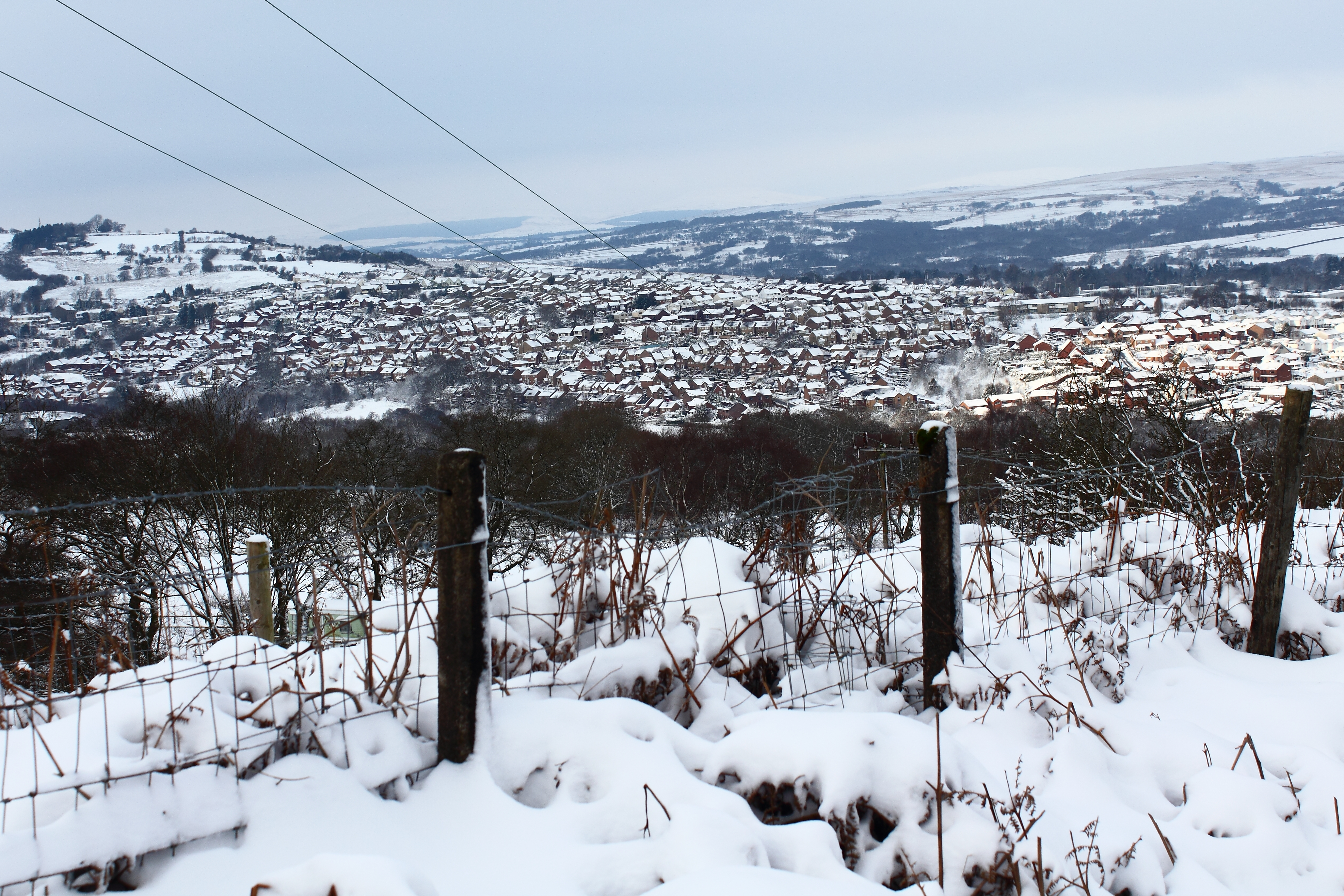 Aberdare in the South Wales Vallies in the Janauary 2013 prolonged snow. In the distance is the Brecon Beacons. This area falls in what the met office called the Red Warning zone. Other information Photo taken by Andrew Scott (user account: Scottie UK).